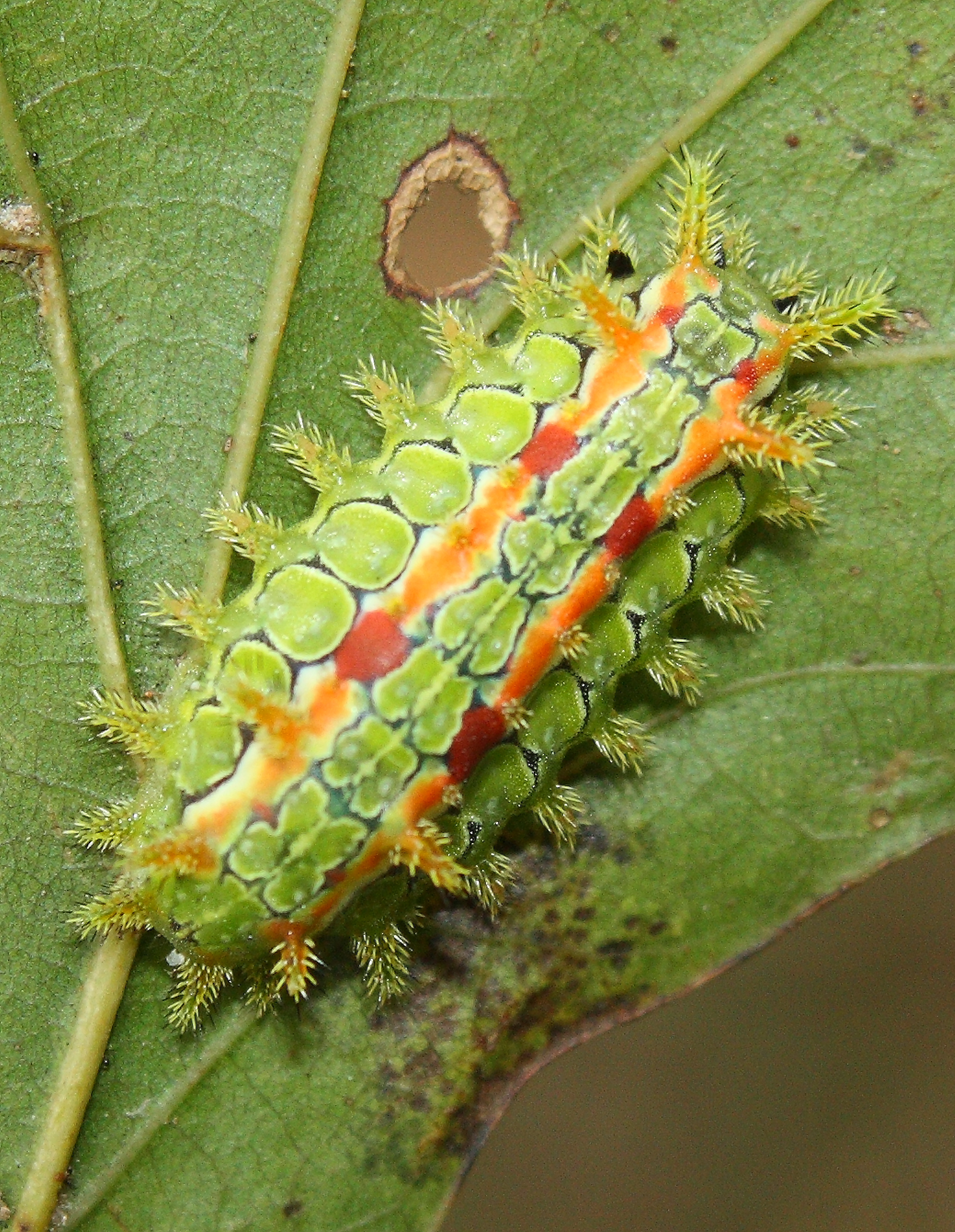 Euclea delphinii Spiny Oak Slug Moth larva feeding on Ptelea trifoliata L. in Orlando, FL on 11/23/2010.